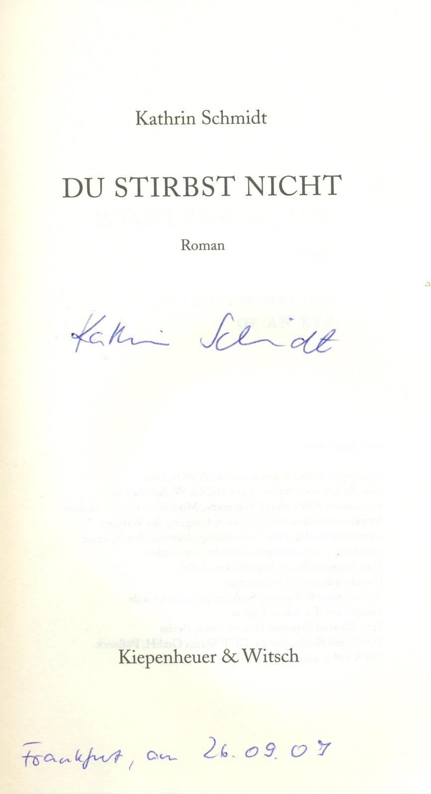 Autograph from Kathrin Schmidt, German writer